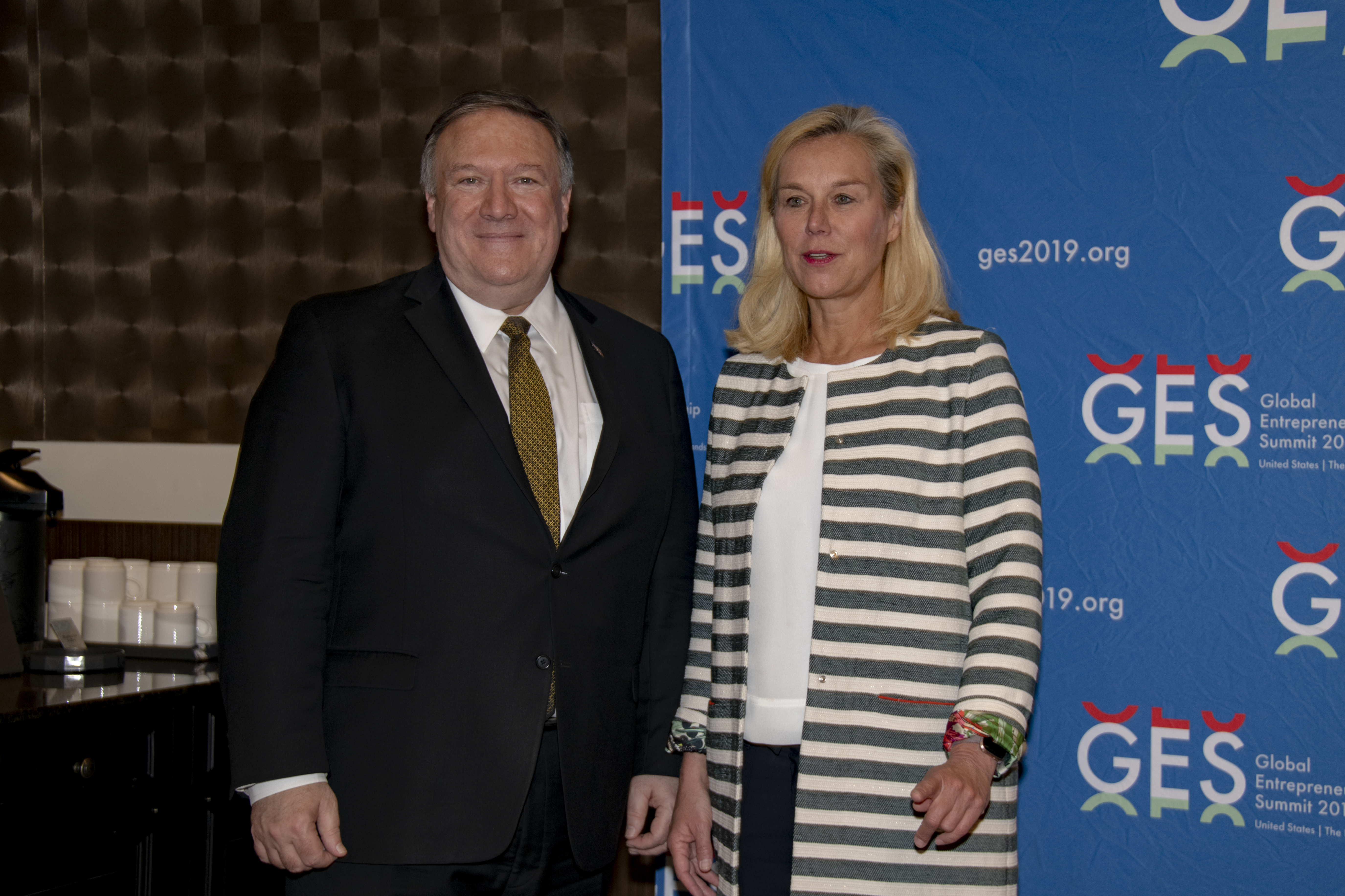 U.S. Secretary of State Michael R. Pompeo meets with Dutch Minister for Foreign Trade and Development Cooperation Sigrid Kaag on the sidelines of the 'Road to GES', hosted by the U.S. Department of State in Overland Park, Kansas on March 18, 2019. [State Department photo by Ron Przysucha/ Public Domain]